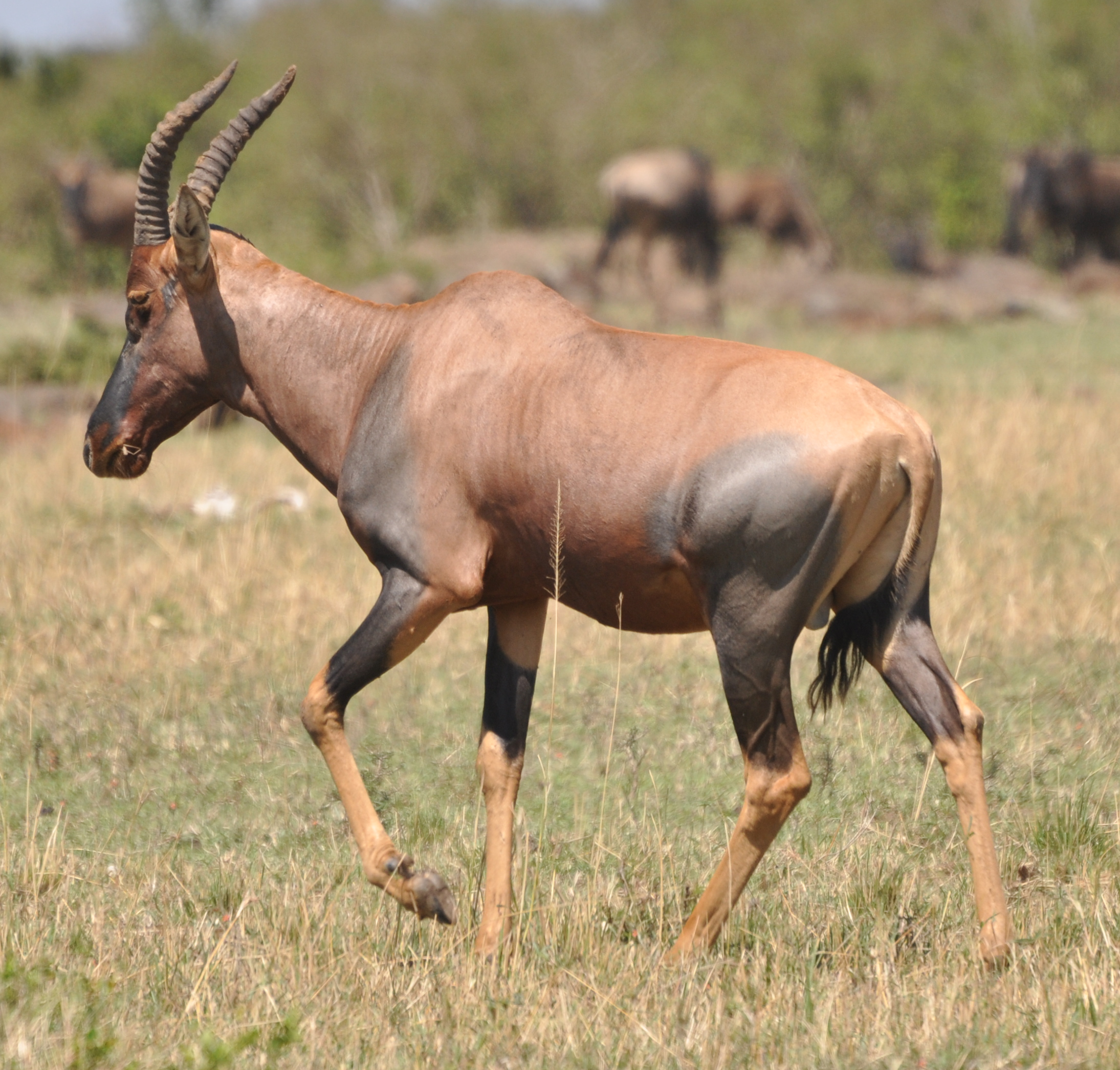 Topi in northern Serengeti